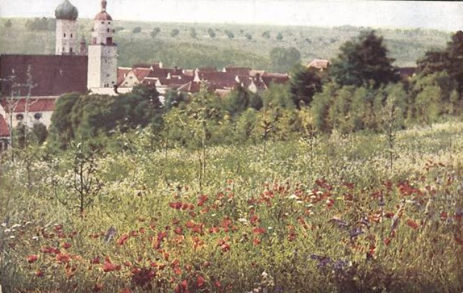 Giengen circa 1910. Giengen (in full, Giengen an der Brenz), now in Baden-Württemberg, was an Free Imperial City until 1803. Old postcard from circa 1910.